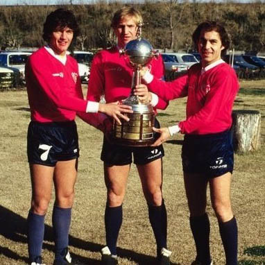 Jorge Burruchaga (7), Enzo Trossero and Ricardo Bochini holding the Copa Libertadores trophy won by Independiente v. Gremio.